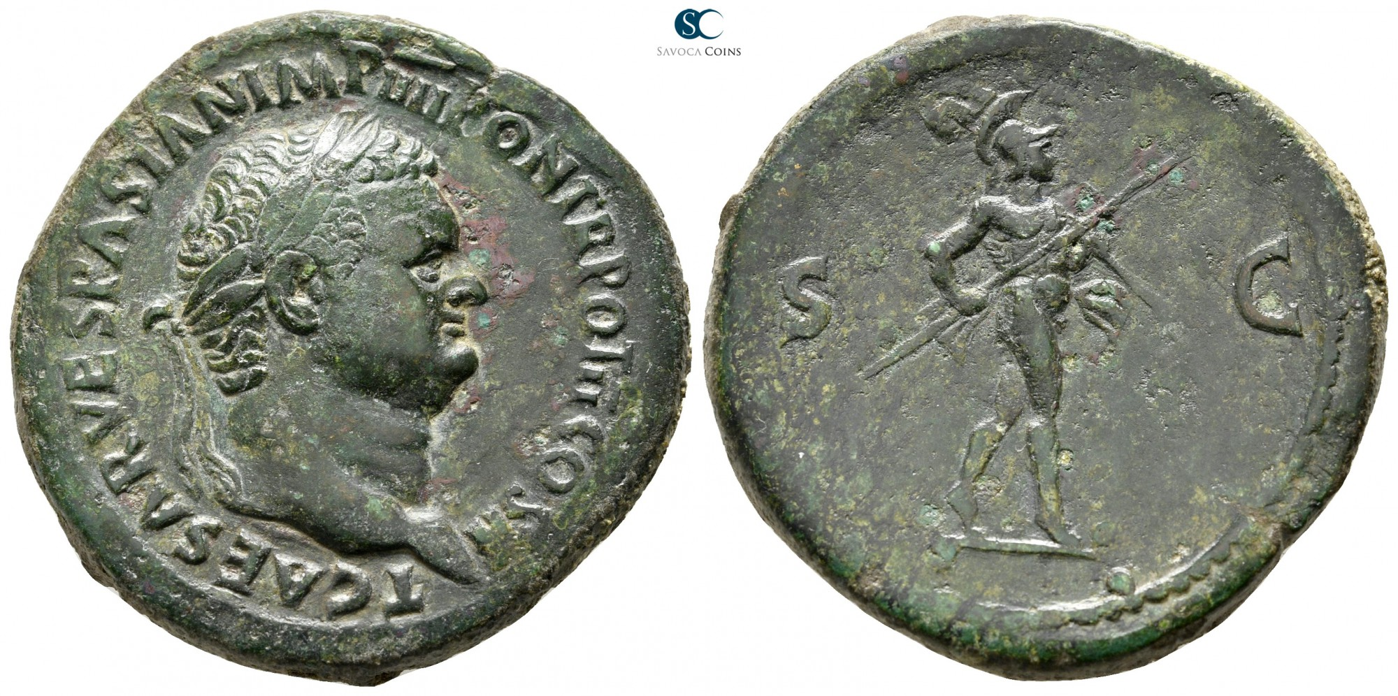 Roman Sestertius from Titus, as Caesar AD 76-78. Issued in Rome. 35 mm., 27 g. Obverse: T CAESAR VESPASIAN IMP IIII PON TR POT II COS II, laureate head right / Reverse: S - C, Mars advancing right, holding spear and trophy.